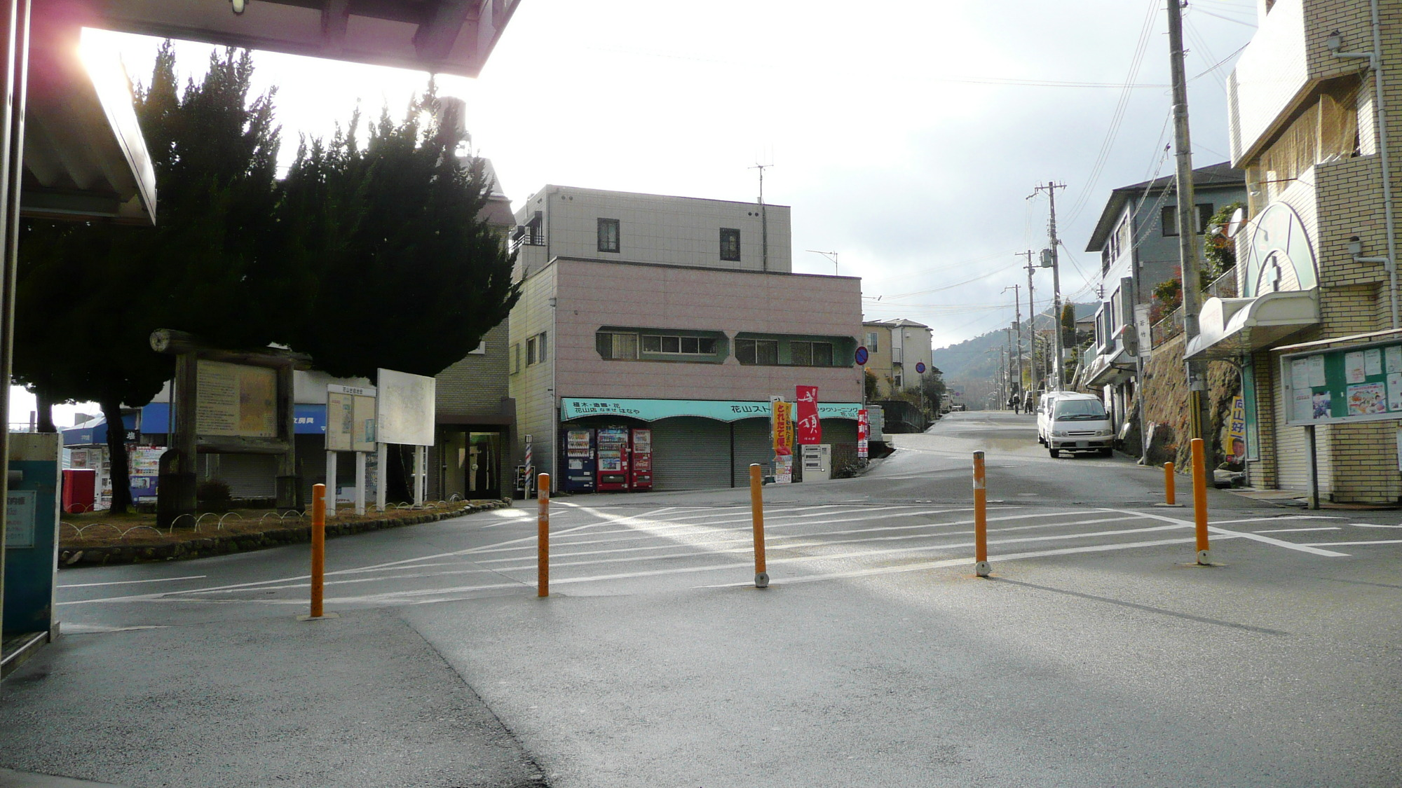 Kobe Electric Railway Hanayama Station plaza